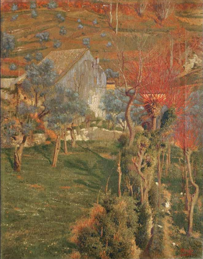 Friedrich Miess - Peisaj din Cervara